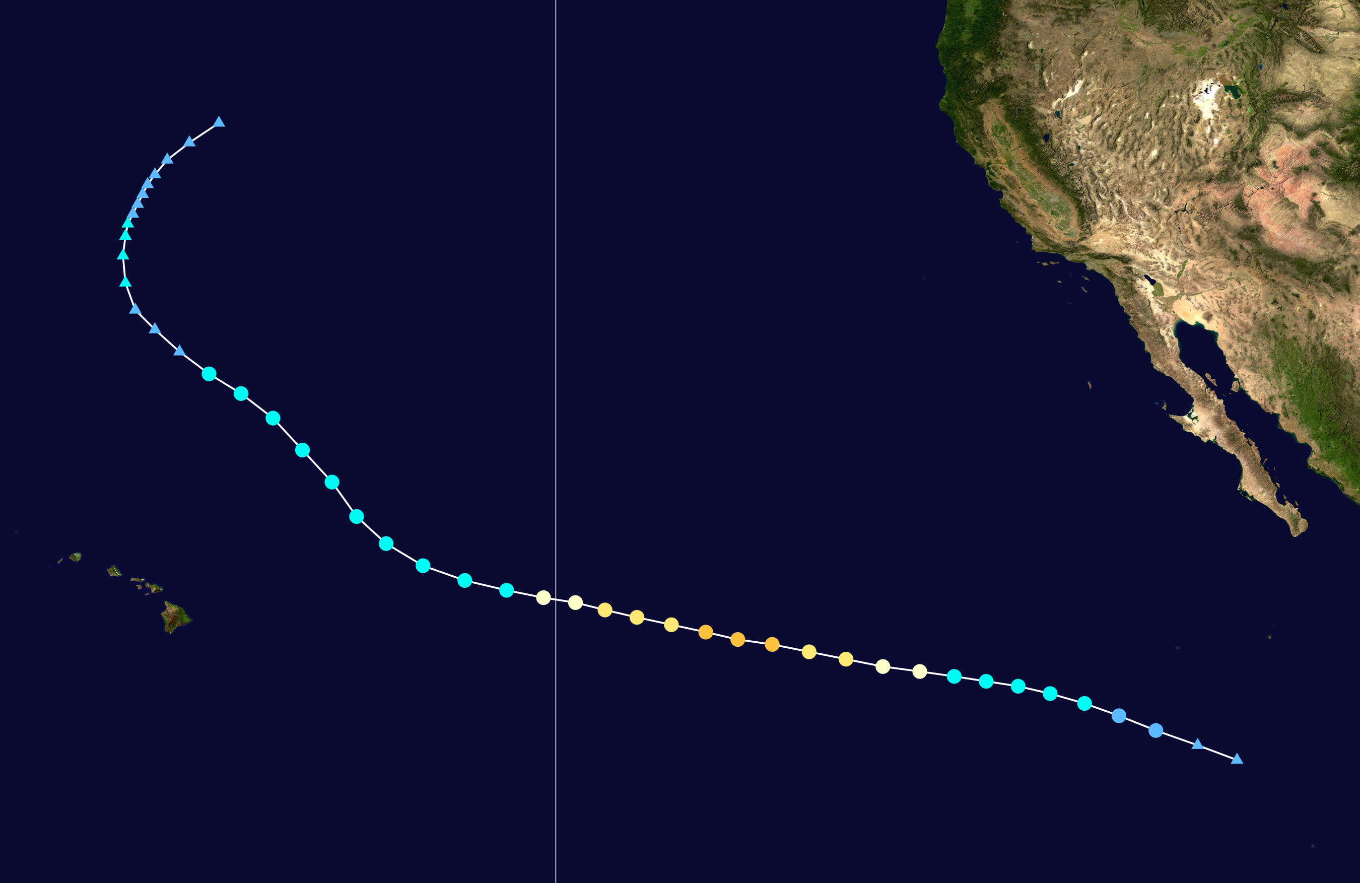 Track map of Hurricane Guillermo of the 2009 Pacific hurricane season. The points show the location of the storm at 6-hour intervals. The colour represents the storm's maximum sustained wind speeds as classified in the Saffir–Simpson scale (see below), and the shape of the data points represent the nature of the storm, according to the legend below. Saffir–Simpson scale Tropical depression≤38 mph≤62 km/h Category 3111–129 mph178–208 km/h Tropical storm39–73 mph63–118 km/h Category 4130–156 mph209–251 km/h Category 174–95 mph119–153 km/h Category 5≥157 mph≥252 km/h Category 296–110 mph154–177 km/h Unknown Storm type Tropical cyclone Subtropical cyclone Extratropical cyclone / Remnant low / Tropical disturbance / Monsoon depression